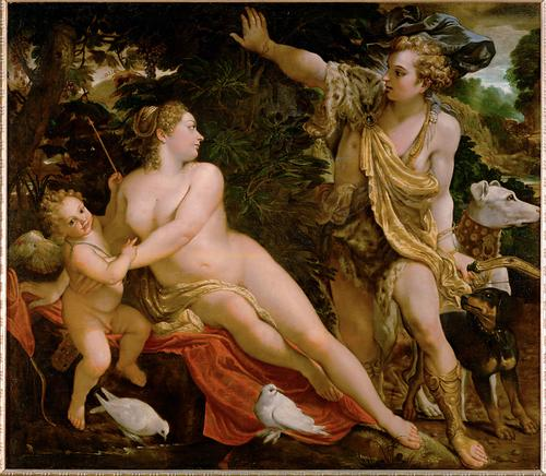 Venus, Adonis and Cupid